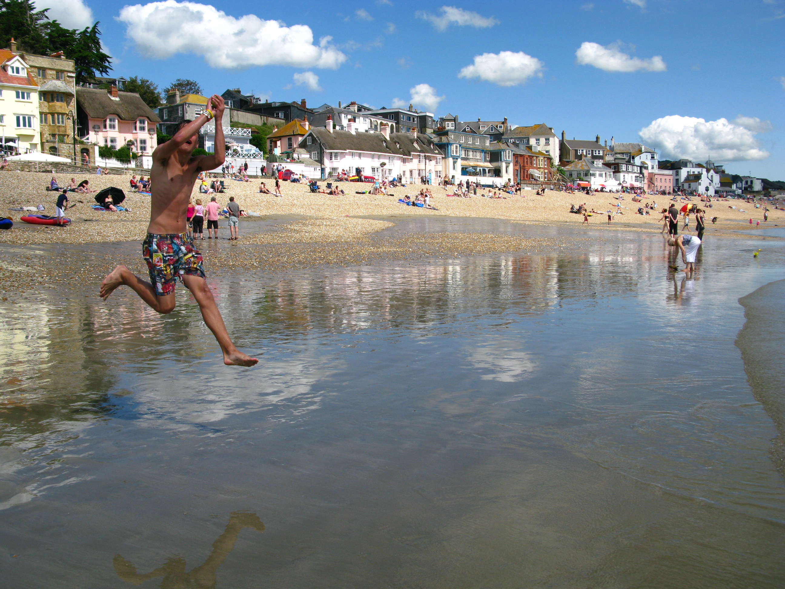 Young people into the air, catches a little ball, at the beach of Lyme Regis on the coast of the English Channel near the western border of Dorset / England / European Union. Noon, looking towards the north. It is just low tide. On the bright blue sky, there are some clouds.